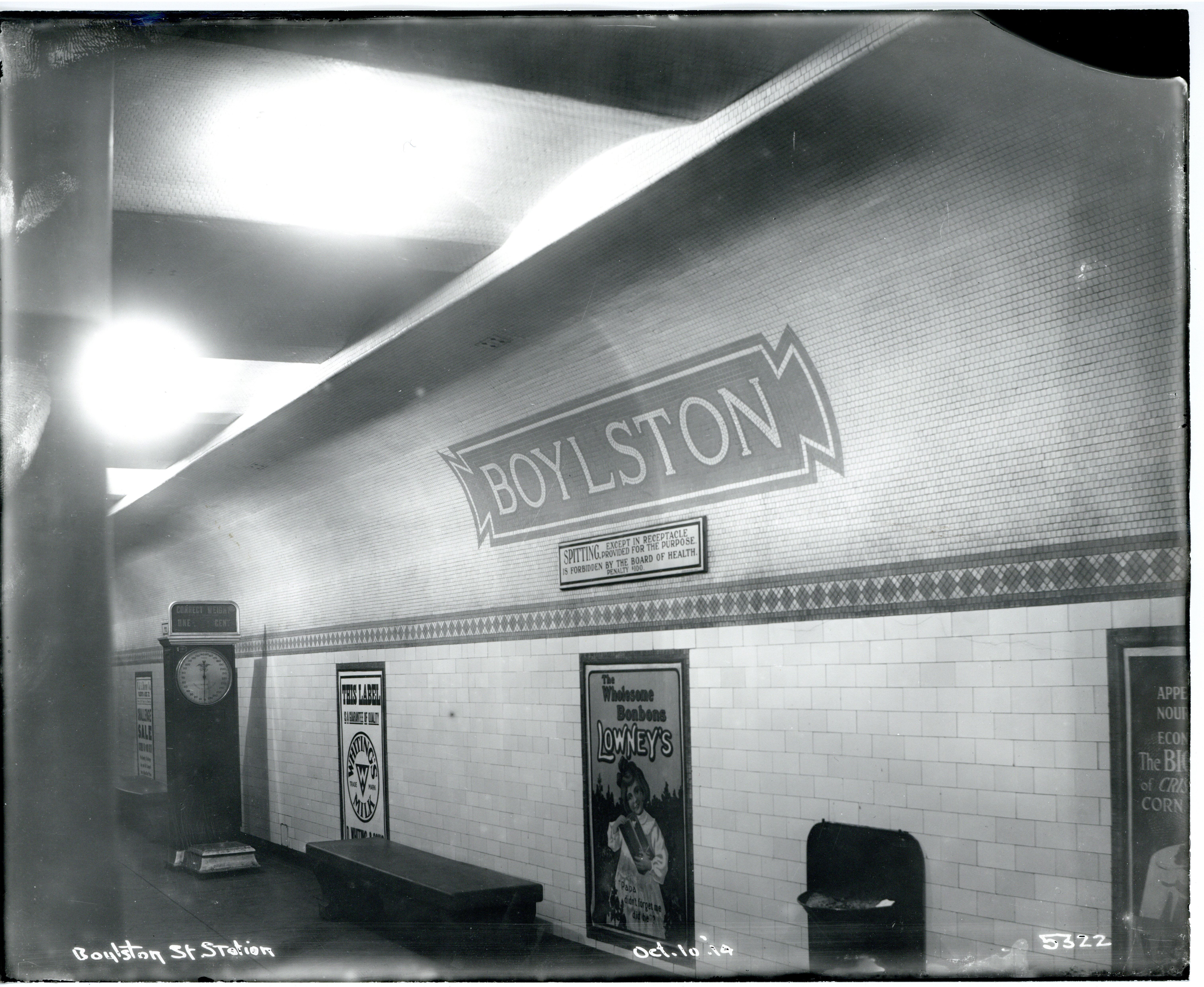 Boylston Street station (the southbound platform at what is now Chinatown station) in October 1914